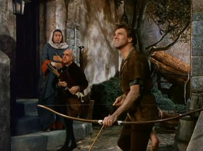 Left to right: Aline MacMahon, Francis Pierlot, and Burt Lancaster in The Flame and the Arrow (1950) - trailer (cropped screenshot)